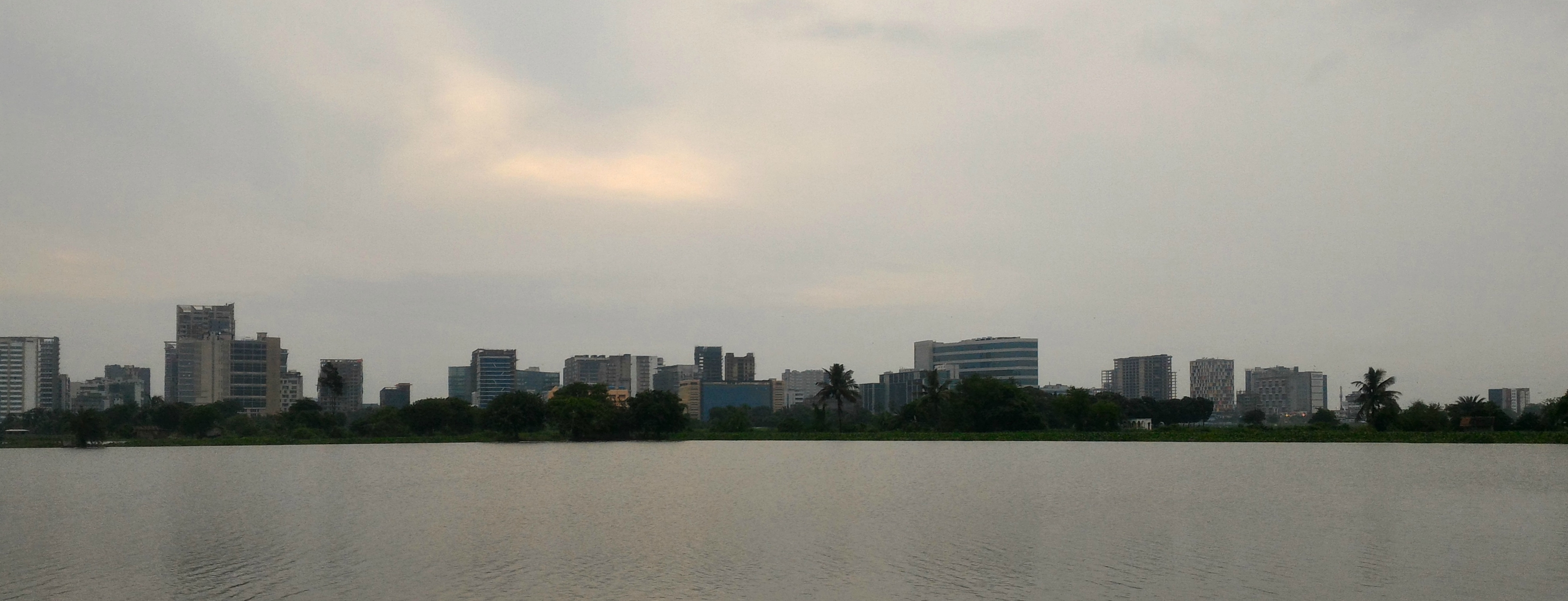 Downtown Salt Lake, Kolkata viewed from the lakes surrounding Bidhannagar.